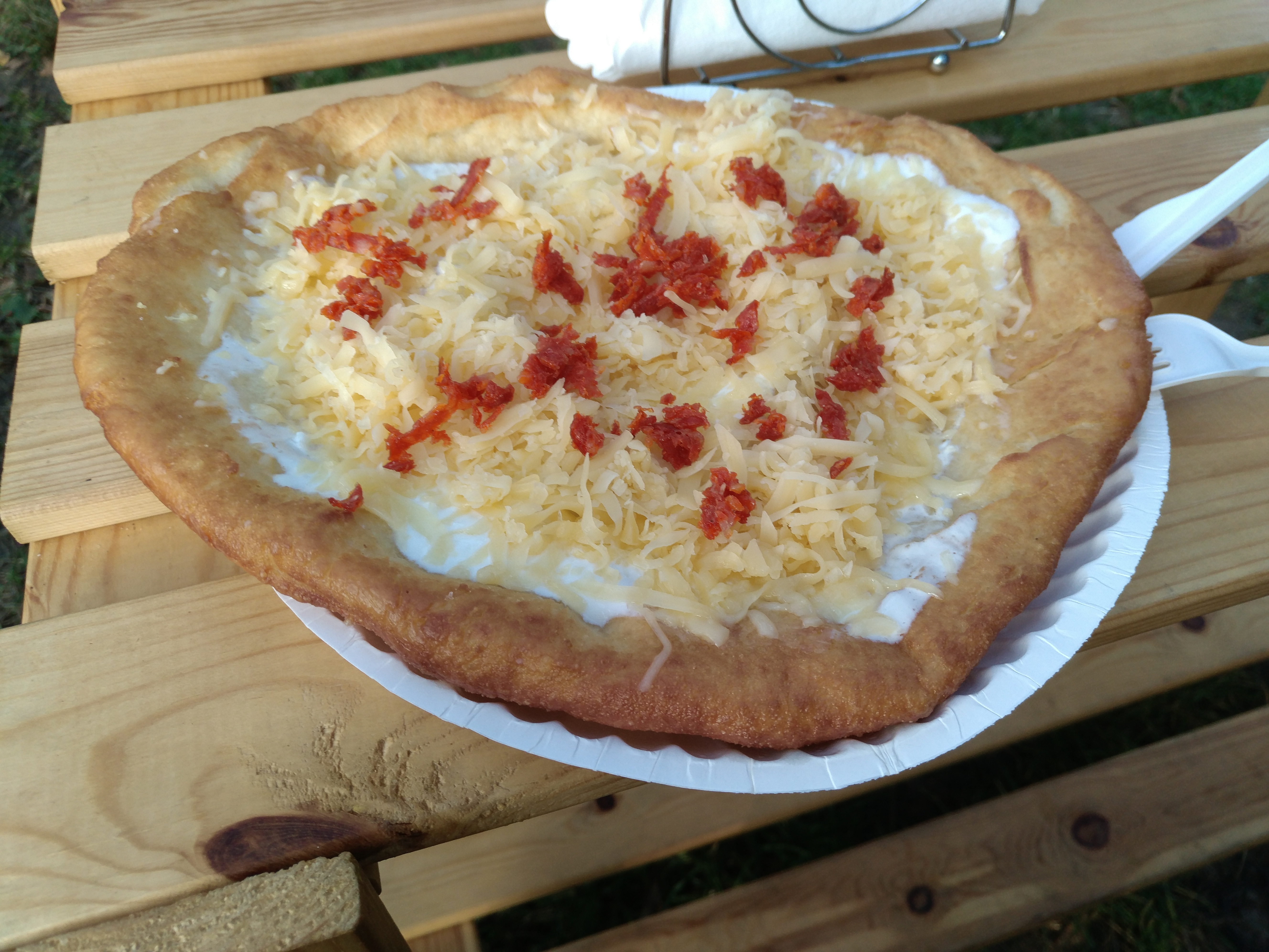 Lángos